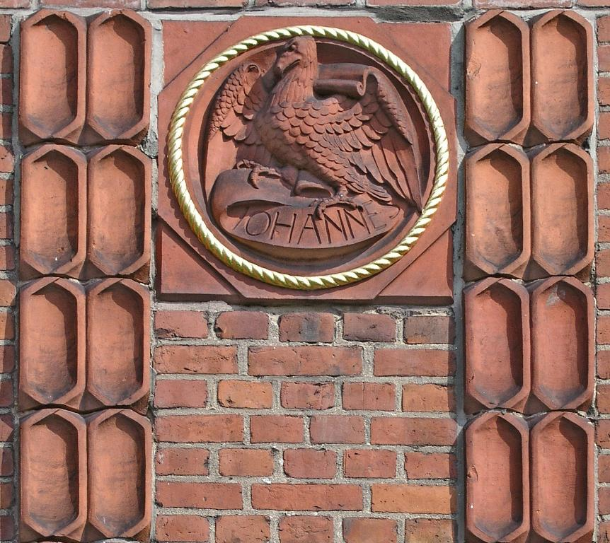 Neumünster, Schleswig-Holstein, Germany: church “Anscharkirche“, photo 2007.